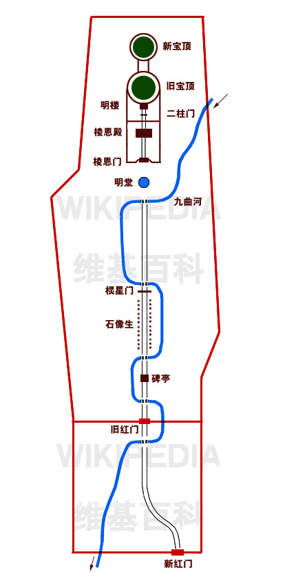 Map of Mingxian Mausoleum